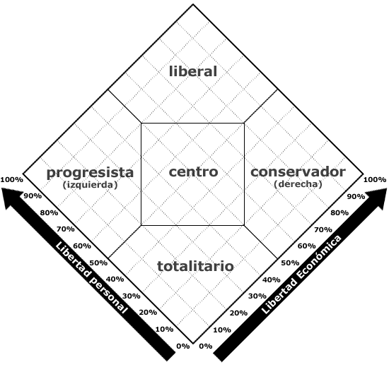 Nolan chart in Spanish